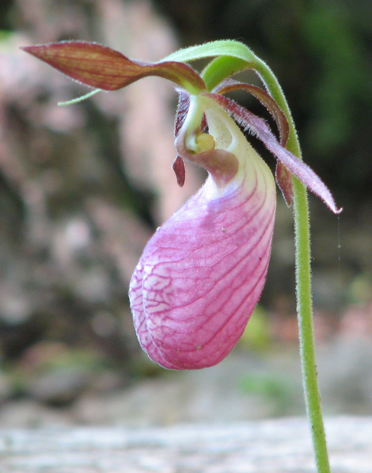 A Pink Lady's Slipper (Cypripedium acaule) from Penwood State Park in central Connecticut